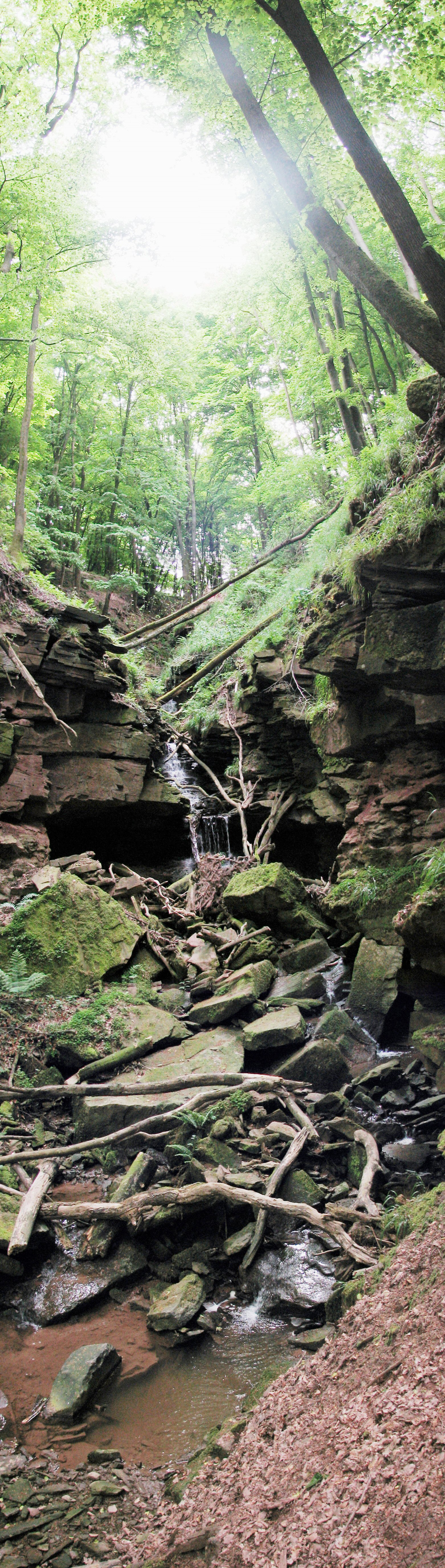 Margarethenschlucht, Odenwald, Germany.